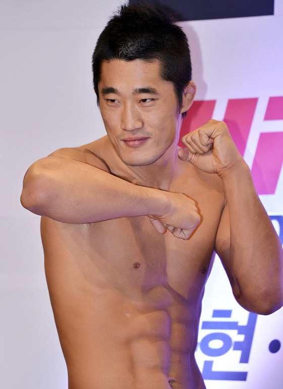 South Korean MMA fighter Kim Dong-Hyun, on November 4, 2012.